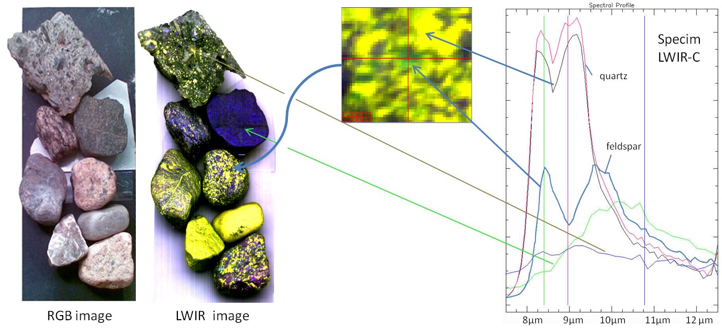 A set of stones is scanned with a Specim LWIR-C imager in the thermal infrared range from 7.7 μm to 12.4 μm. The quartz and feldspar spectra are clearly recognizable. Holma, H., (May 2011), Thermische Hyperspektralbildgebung im langwelligen Infrarot, Photonik